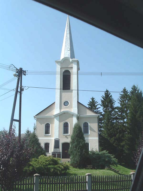 Evangelic Church in Őrimagyarósd, Hungary